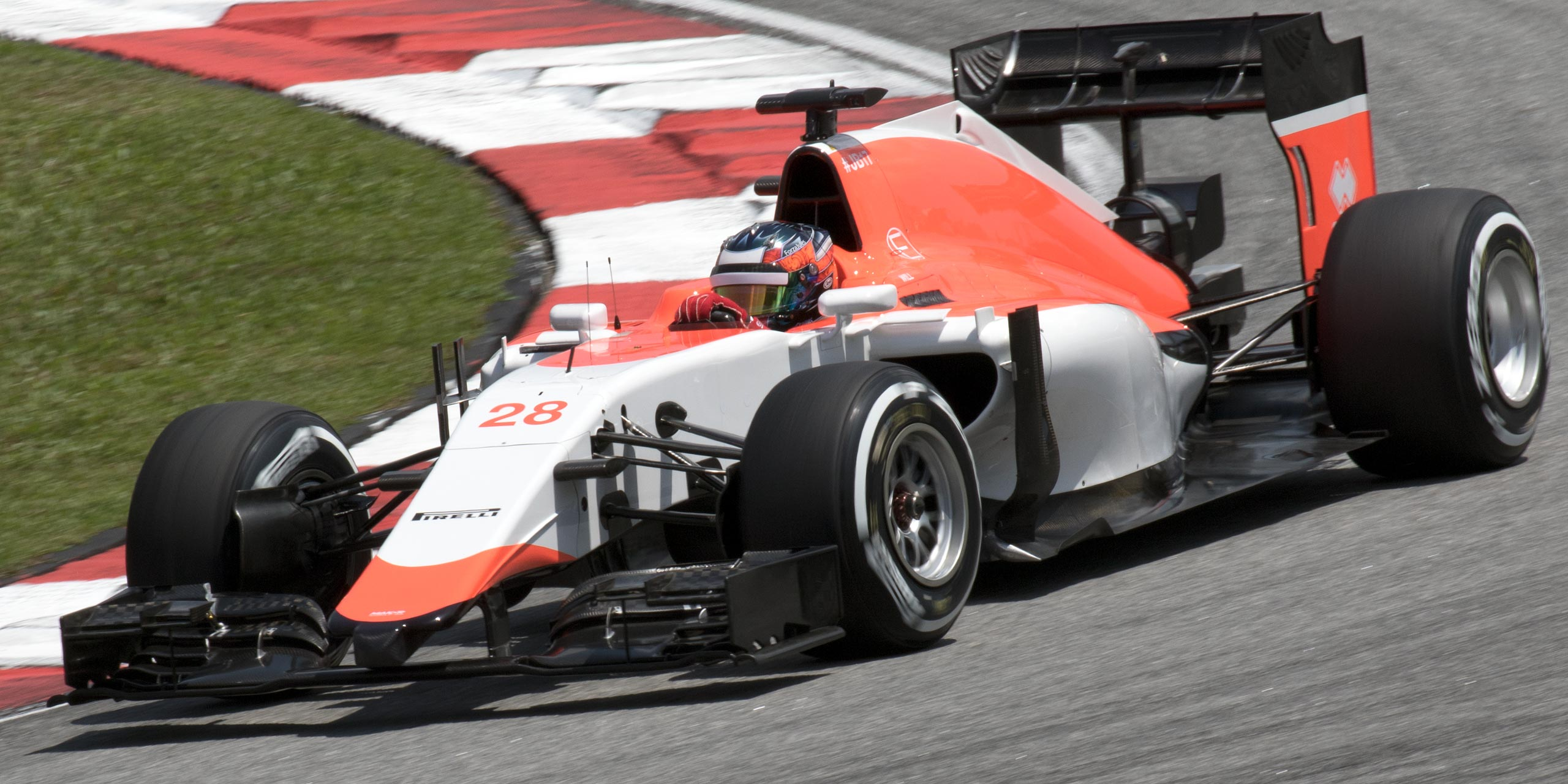 Formula One 2015 Rd.2 Malaysian GP: Will Stevens (Manor-Marussia)